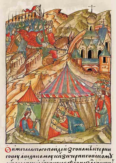 March to Chernigov; Sviatoslav Olgovich in his deathbed, with his wife and sons